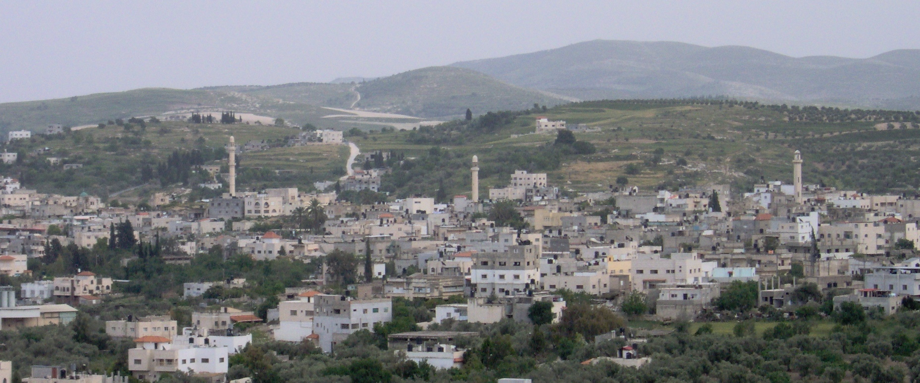 A view of Arrabah, West Bank from north.